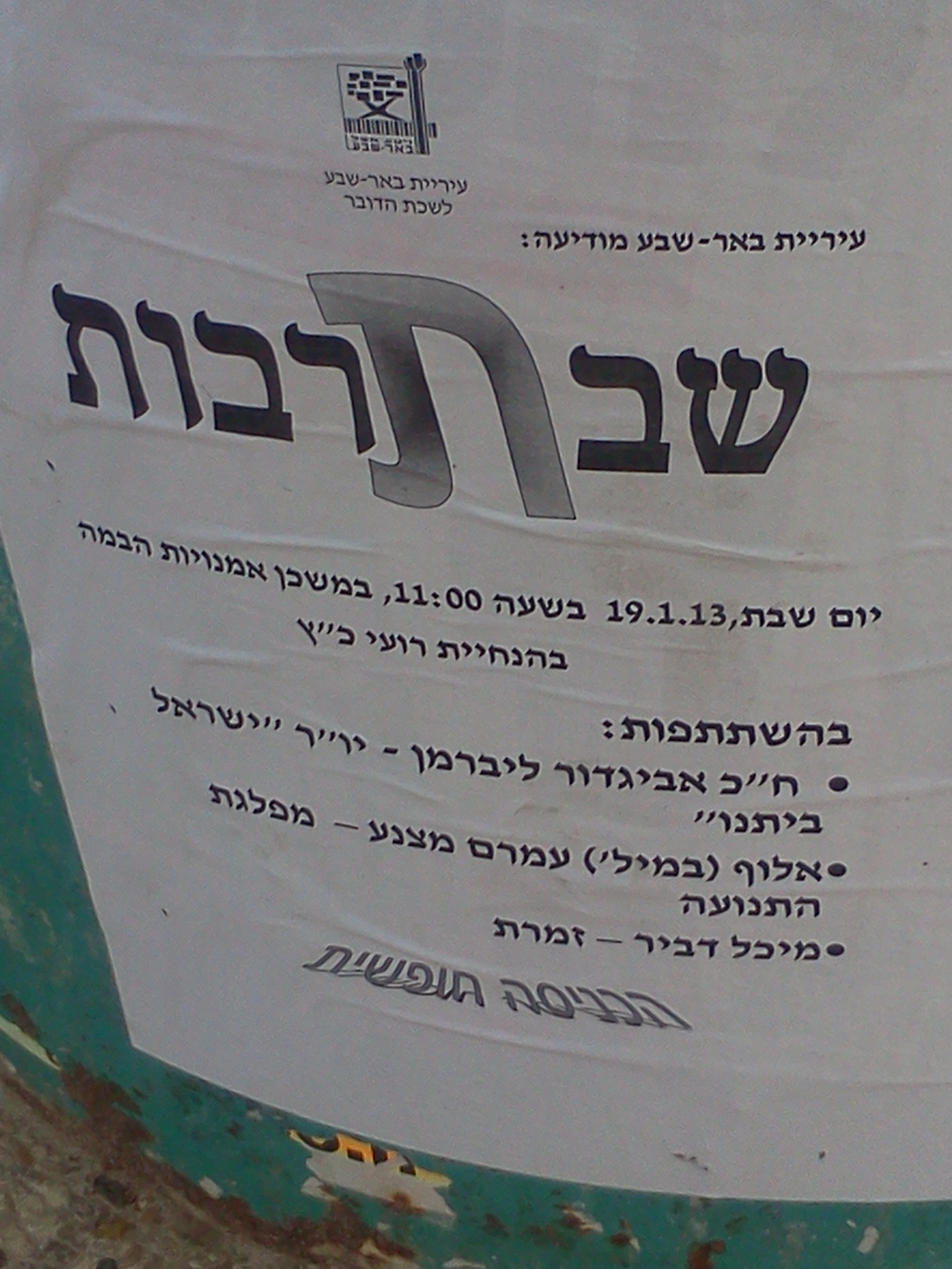 "Shabt-tarbut" (hebrew: שבתרבות) - a program of interviews, opened to the public, an irreligious phenomenon takes place in different cities in Israel on Saturday. In the picture: an invitation to "Shabat-tarbut" on a public bulletin board, Beersheba, Israel, January 2013.